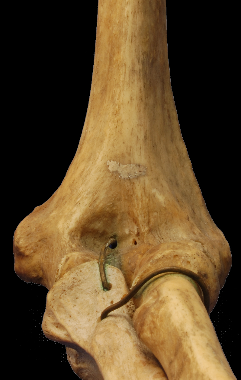 Photograph of left human articulation of humerus, radius, and ulna. The copper wire is, obviously, not natural. Keywords: human bones, bone, humerus, radius, ulna, elbow.